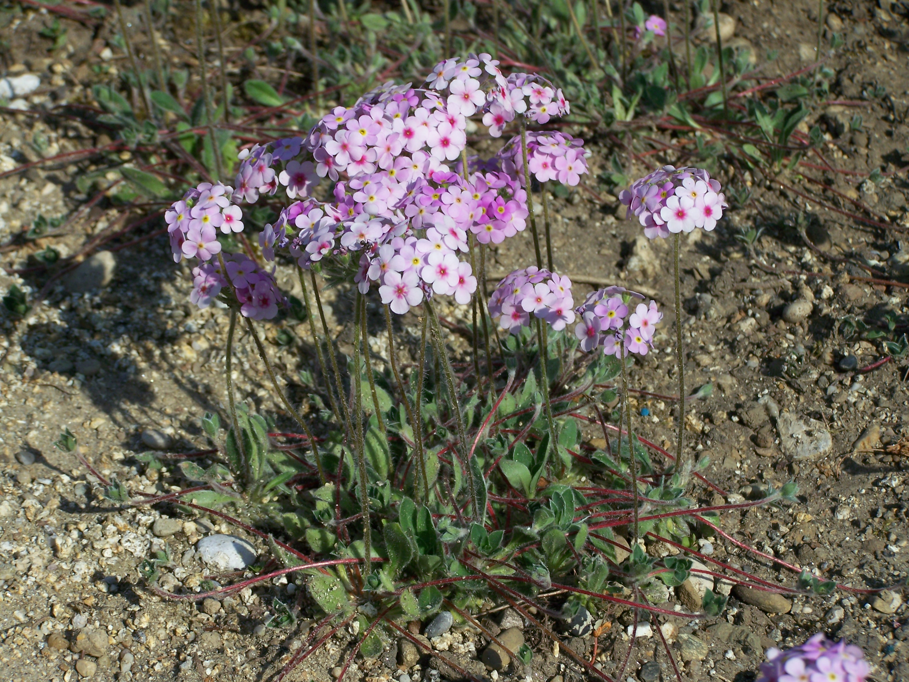 Androsace studiosorum shot at Botanical Garden Munich